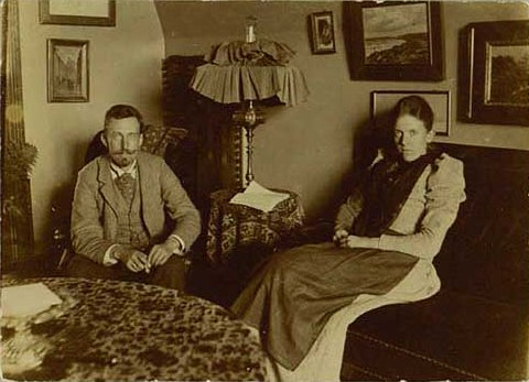 Viggo Stuckenberg (1863-1905), Danish poet and writer, and his wife, Ingeborg.